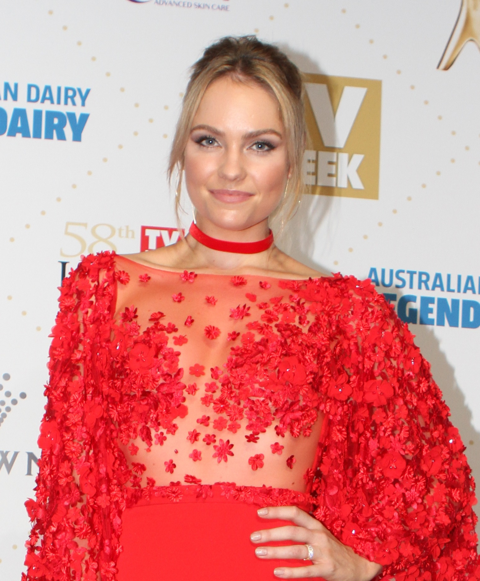 Melina Vidler arrives at the 58th Annual Logie Awards at Crown Palladium.